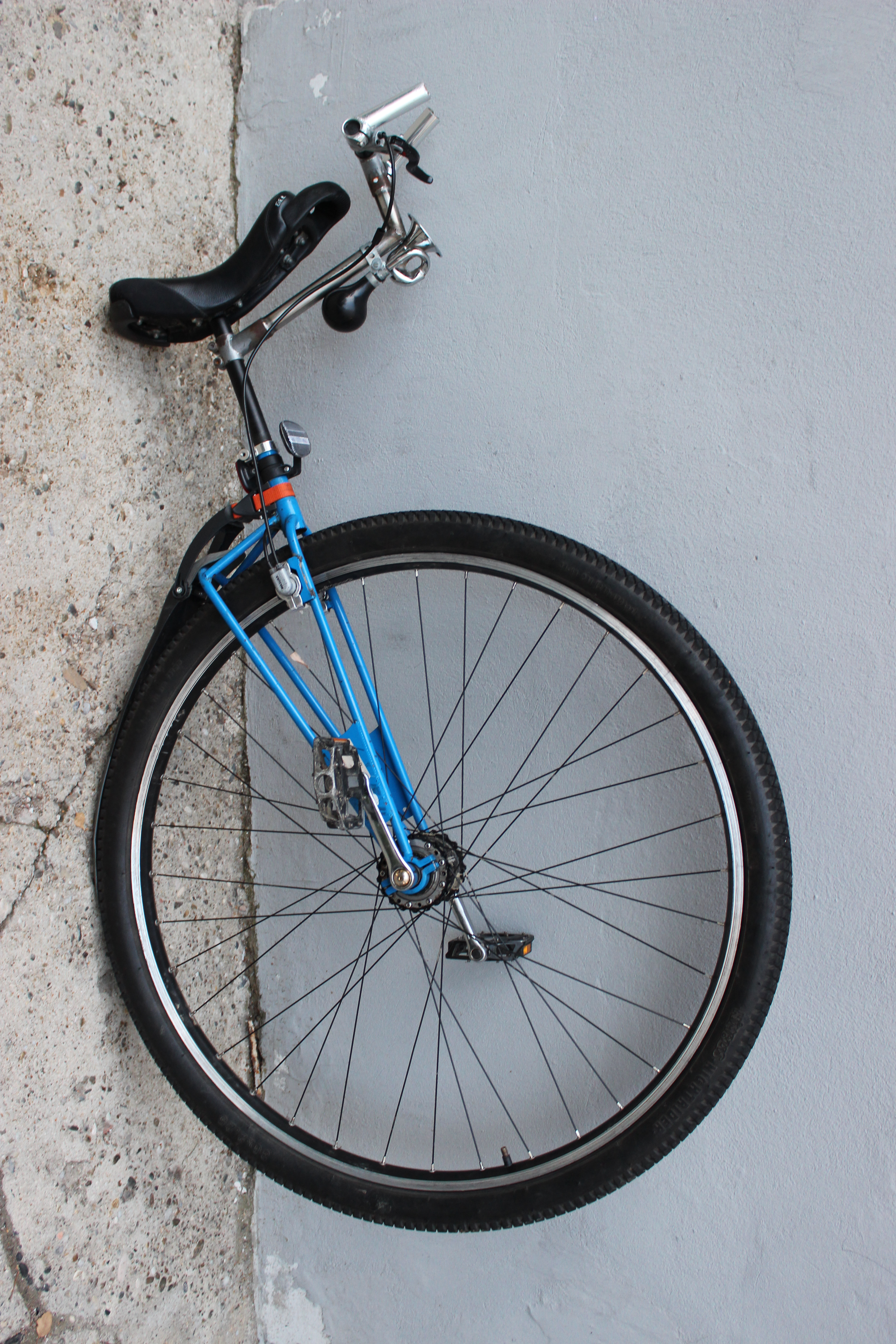 a 36" unicycle used for commuting and long distances (tours and races) with Schlumpf-gear